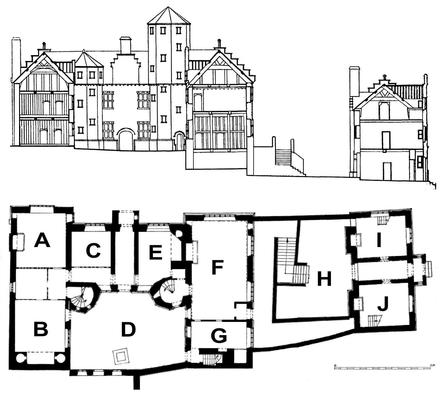 Plan and profile of Plas Mawr